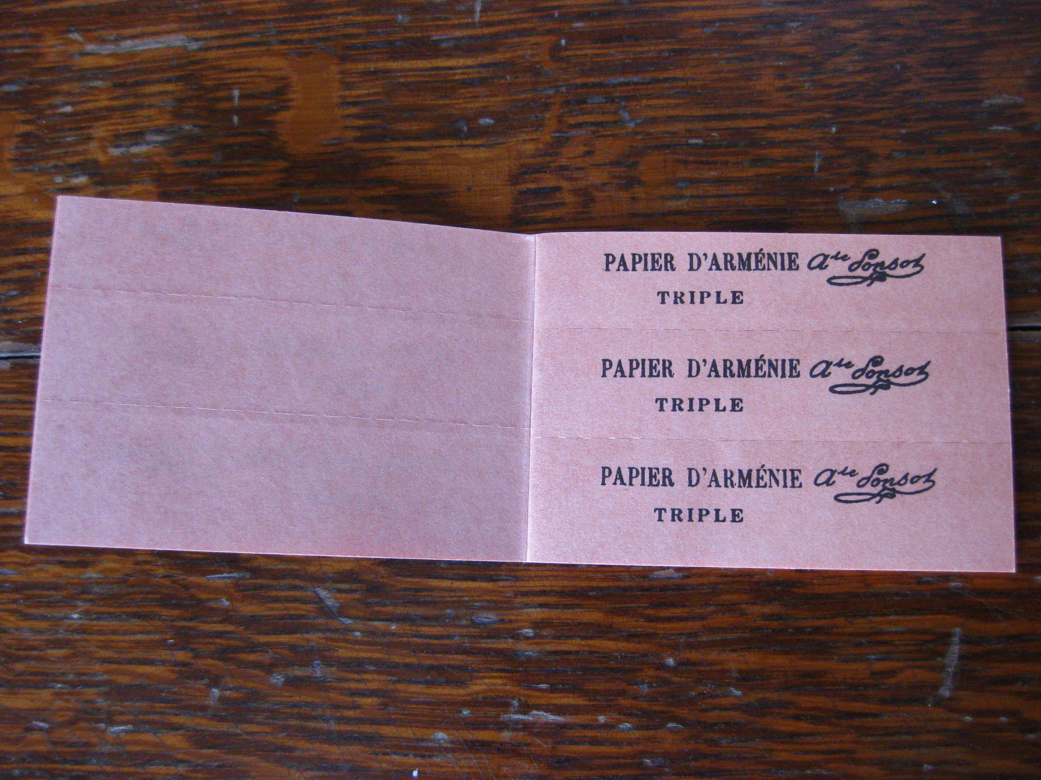 The inside of a booklet of Papier d'Armenie incense paper. Each page is perforated and can be torn out in three separate papers to use separately.